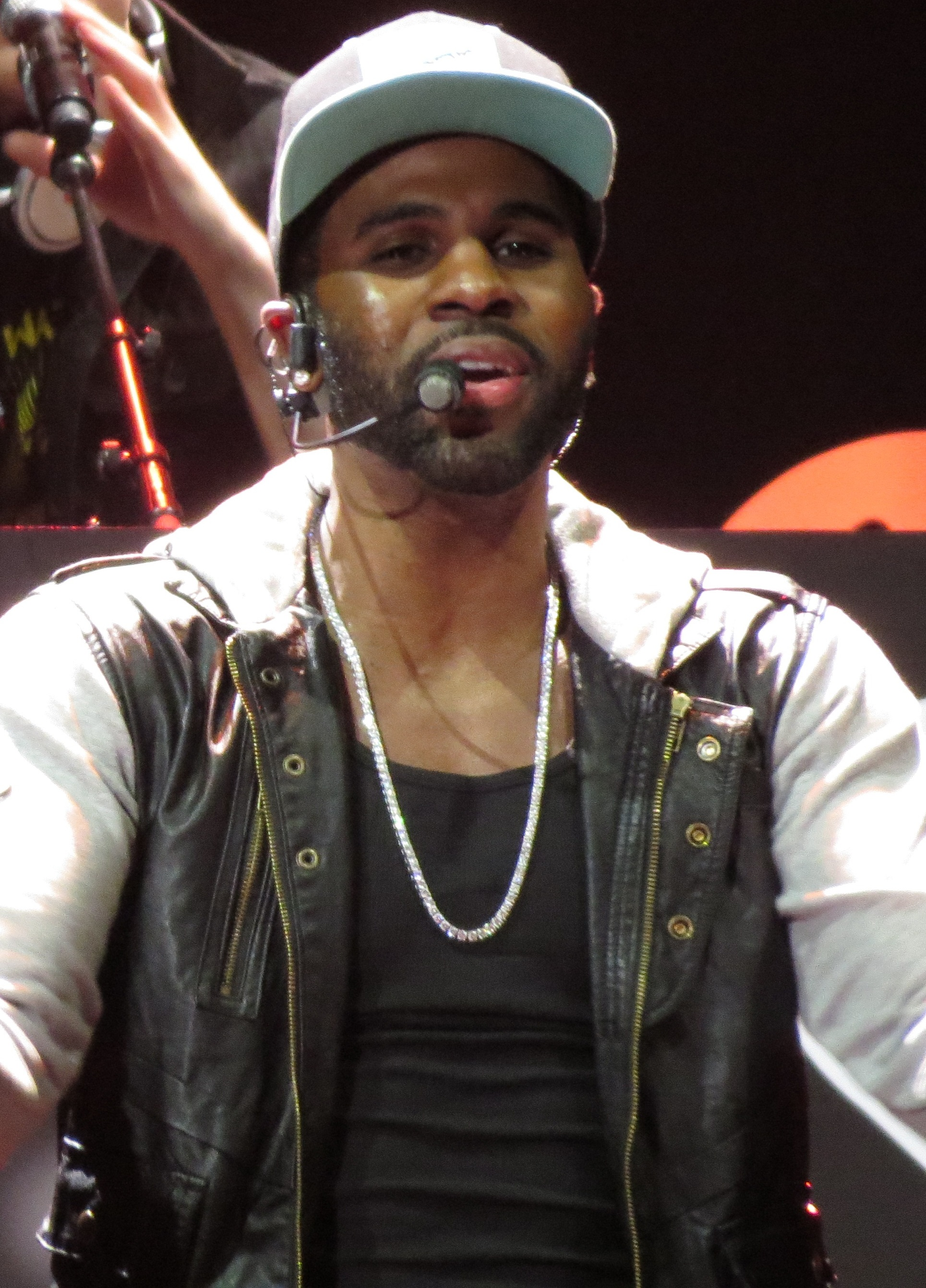 Jason Derulo in 2013